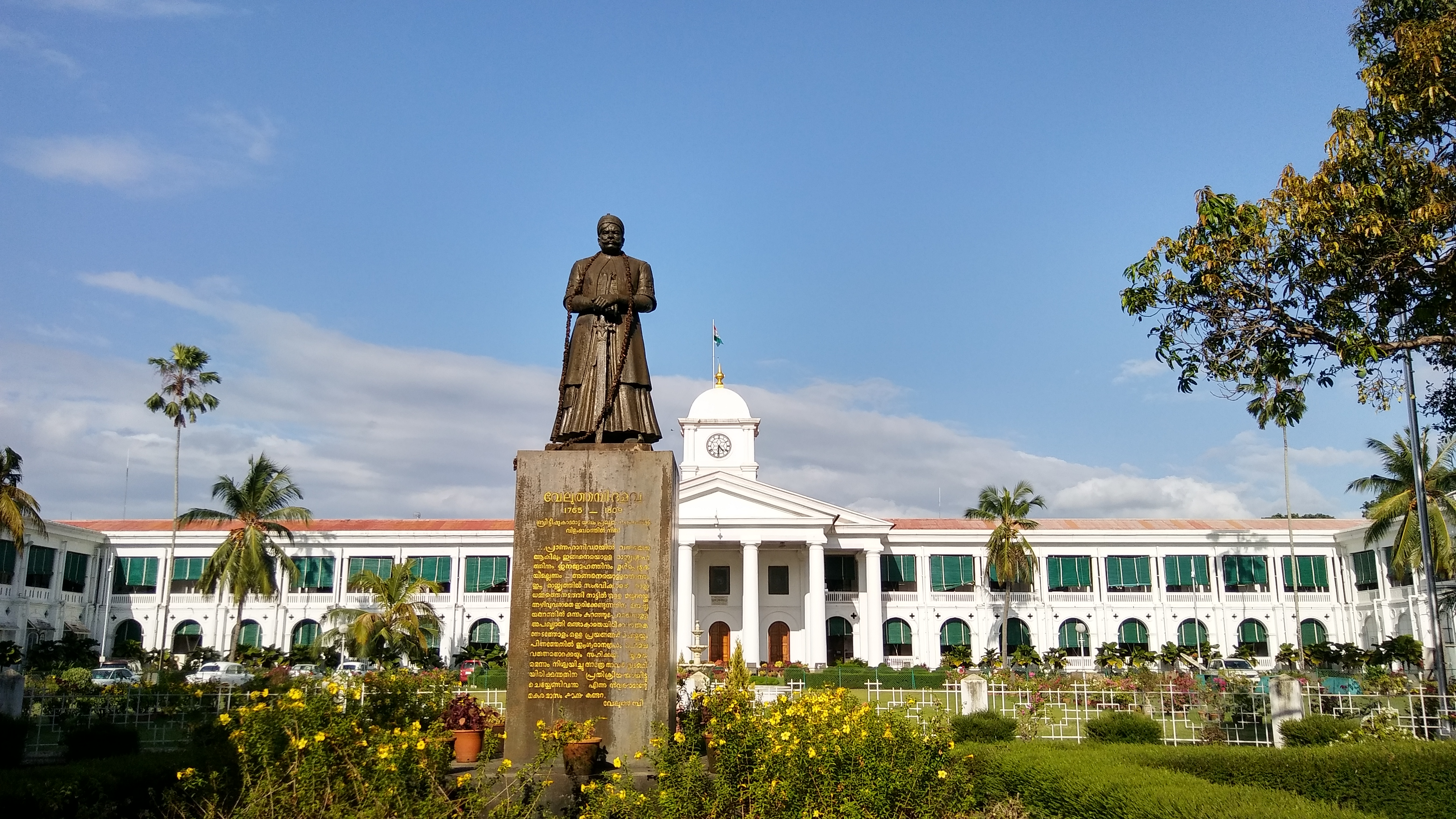 The Government Secretariat Complex in Thiruvananthapuram, which houses offices of ministers and secretaries